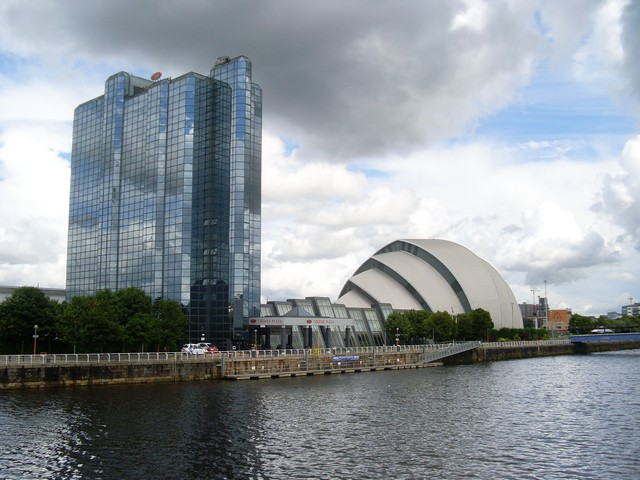 Crowne Plaza Hotel and Clyde Auditorium From the Millennium Bridge.